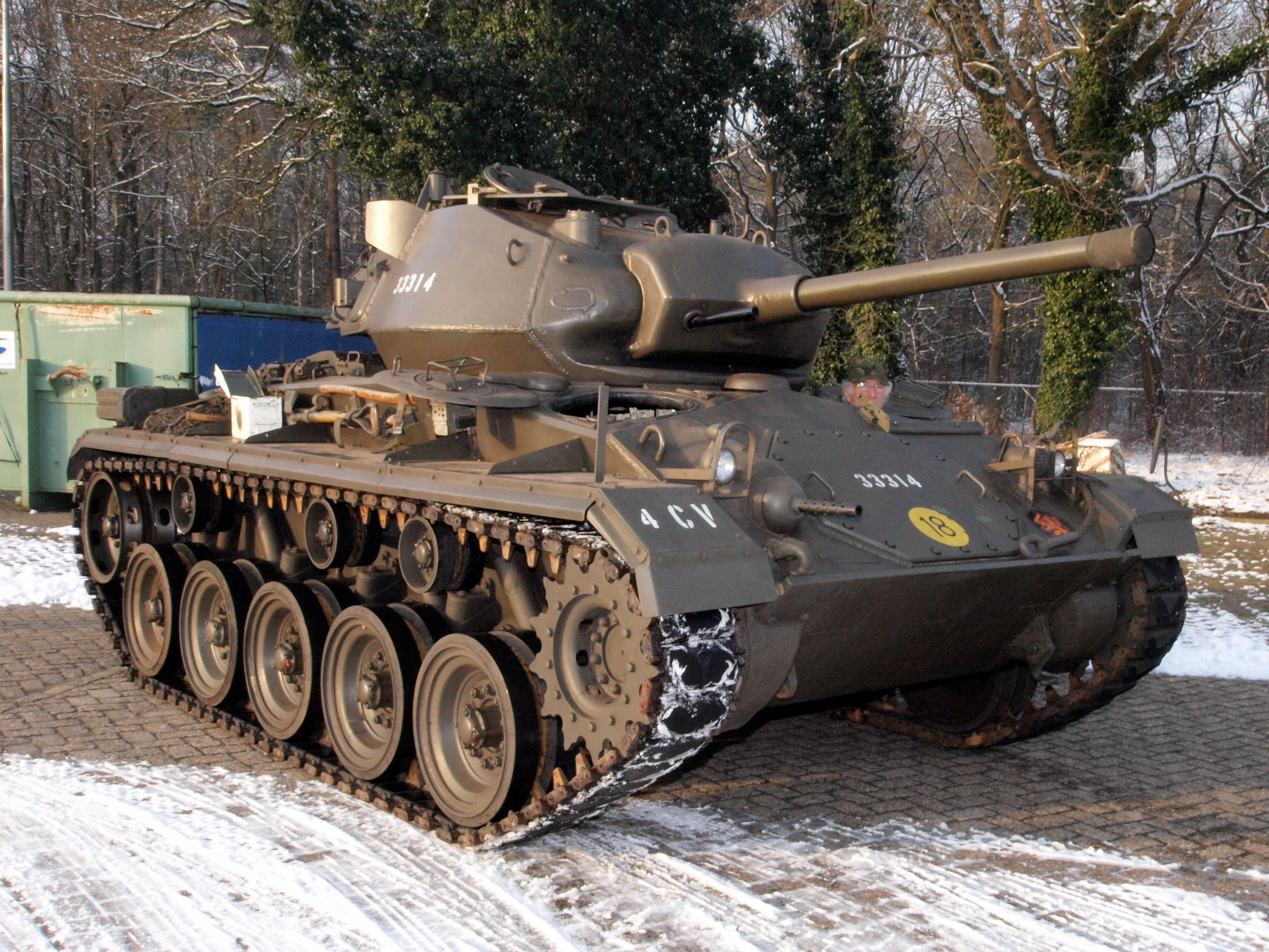 M24 Chaffee 33314 4CV of the Dutch army